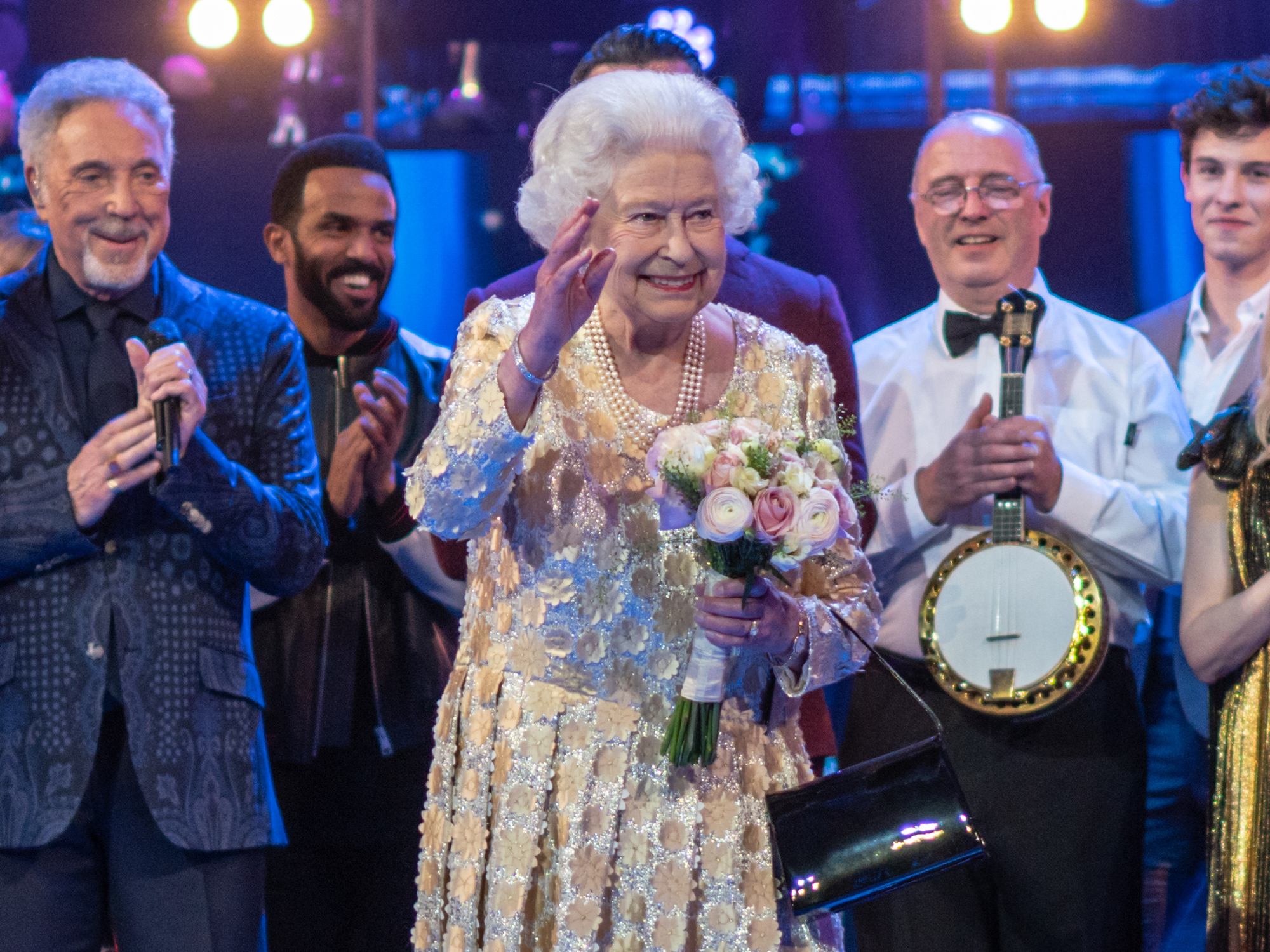 Performers are joined onstage by Elizabeth II at the end of The Queen's Birthday Party, Royal Albert Hall, 2018